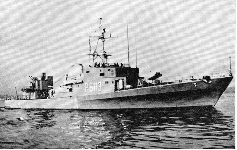 German Corvette "Najade" of Thetis class